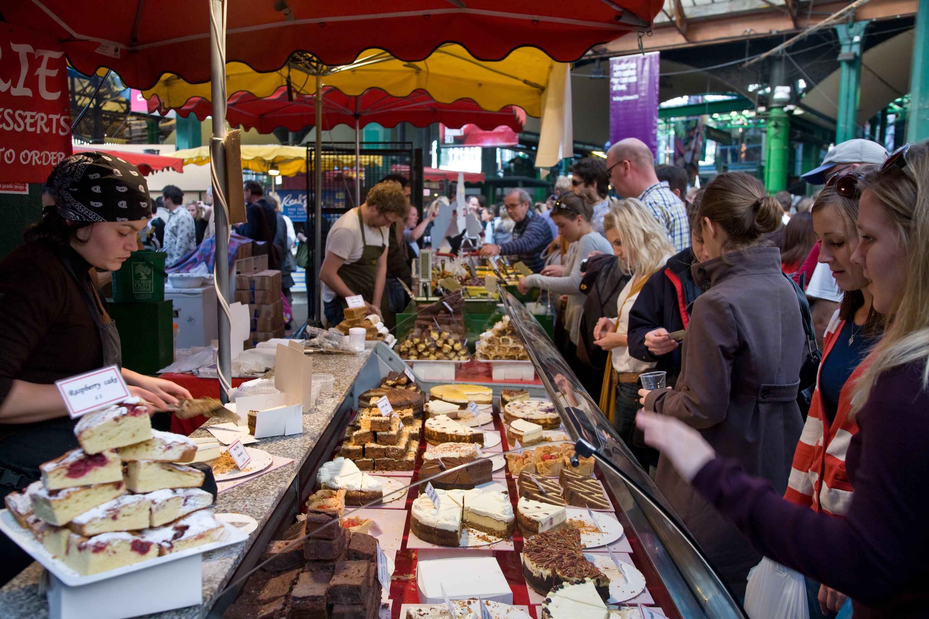 A cake stall in busy Borough Market on a Saturday afternoon in London, England. Taken by myself with a Canon 5D and 24-105mm f/4L IS lens.